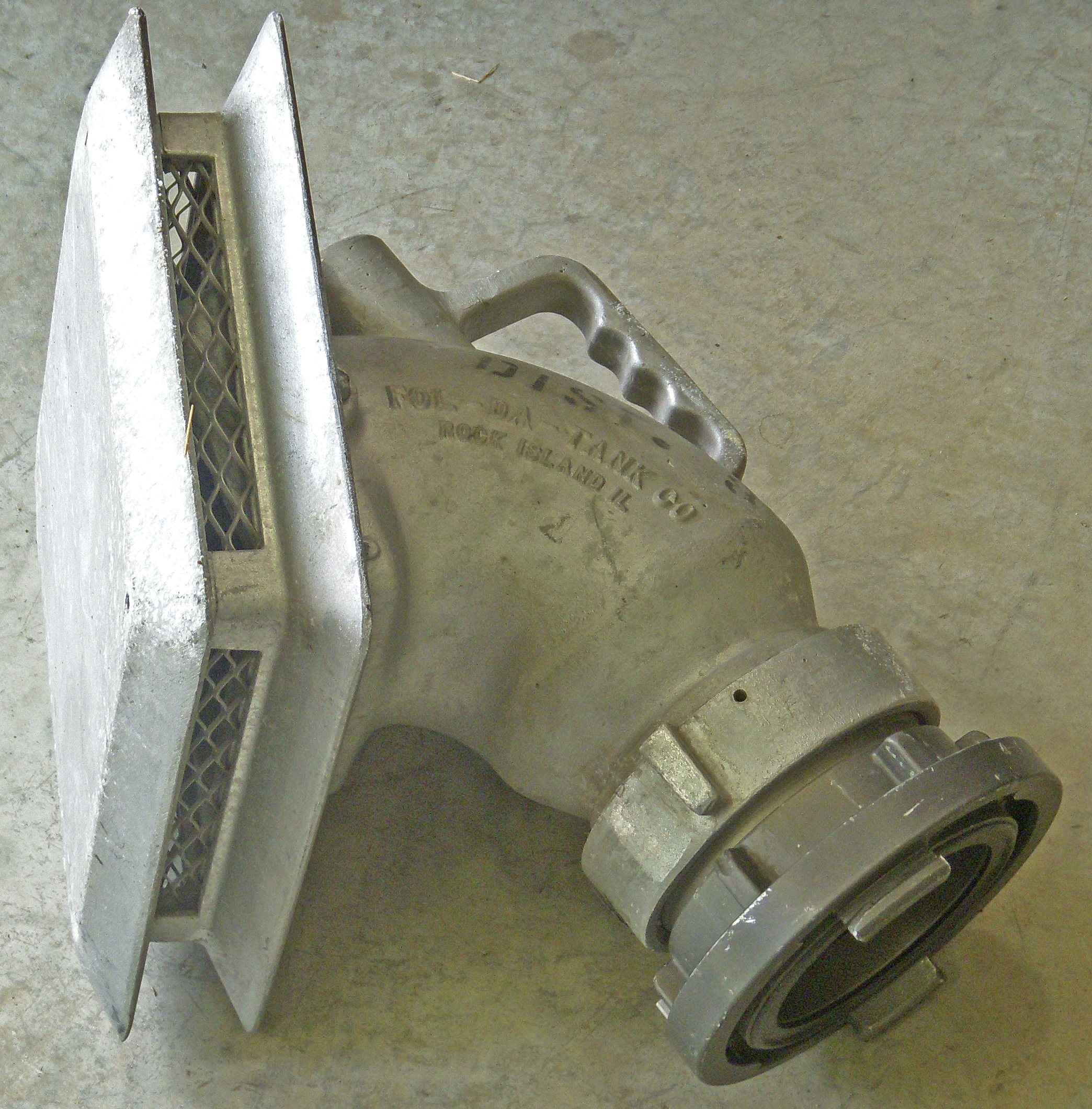 Strainer for drafting water from a pool, etc. for firefighting. 5" Storz connector.